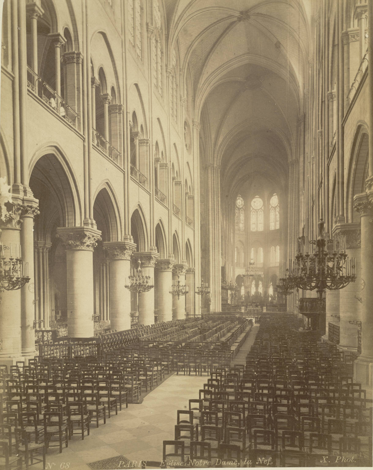 Collection: A. D. White Architectural Photographs, Cornell University Library Accession Number: 15/5/3090.00029 Title: Paris. Notre Dame Cathedral, Nave Photographer: X. Phot. (French) Publisher: Giraudon (French, established 1877-present) Building Date: 1163-1345 Photograph date: ca. 1877-ca. 1895 Location: Europe: France; Paris Materials: albumen print Image: 10.75 x 8.5 in.; 27.305 x 21.59 cm Style: Gothic Provenance: Transfer from the College of Architecture, Art and Planning Persistent URI: There are no known copyright restrictions on this image. The digital file is owned by the Cornell University Library which is making it freely available with the request that, when possible, the Library be credited as its source. We had some help with the geocoding from Web Services by Yahoo!